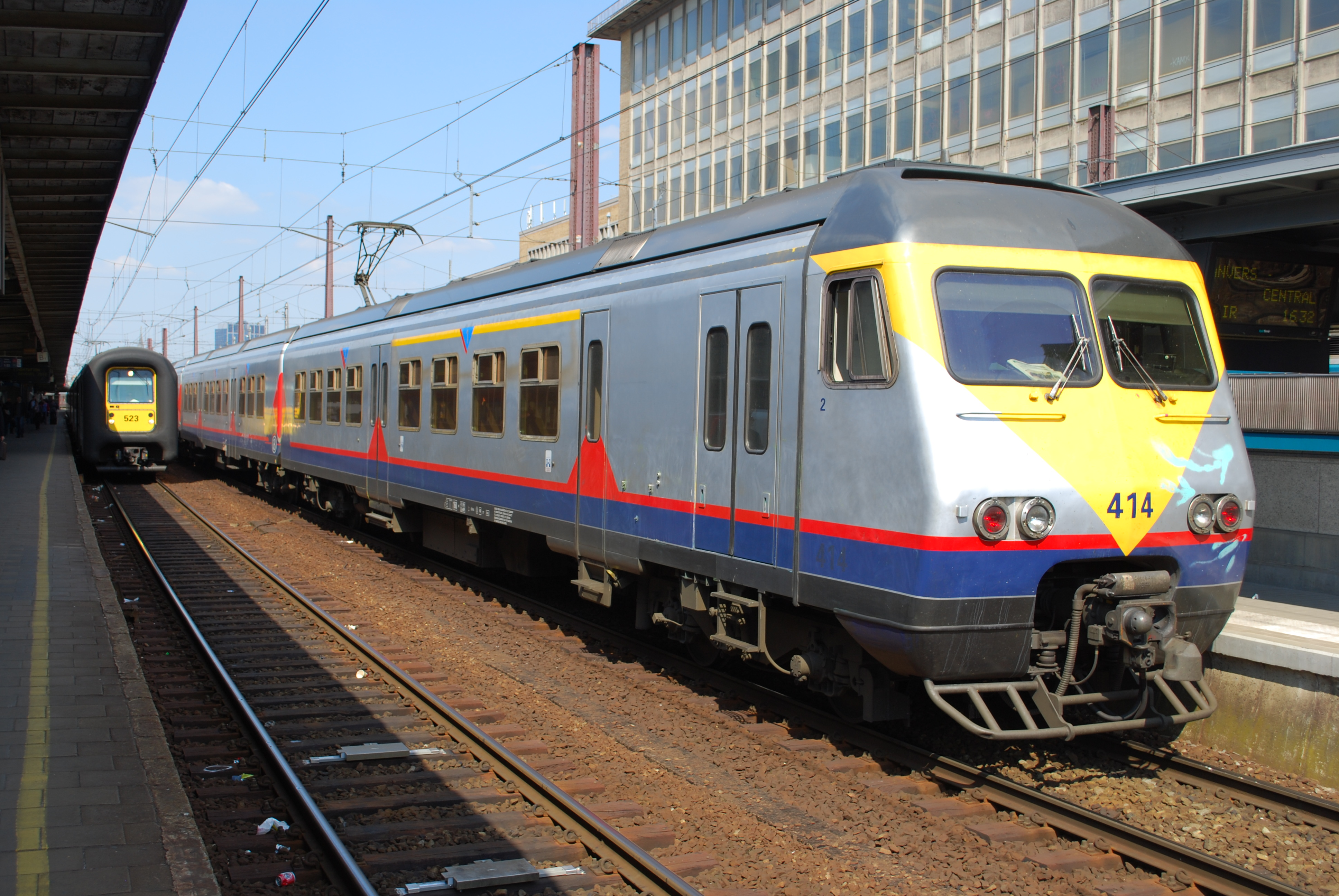 SNCB/NMBS Class AM83 3-car "BREAK" outer-suburban e.m.u. No.414 in standard white with red & blue stripes livery at Brussels Midi, 6/11. These are the e.m.u. version of the Type M4 coach. The BREAK's consist of 3 classes built by La Brugeoise et Nivelles (BN) in 1980-85 : 35 AM80's of 1980-81; 35 AM82's of 1982-83 and 70 of 1983-85, totalling 140.